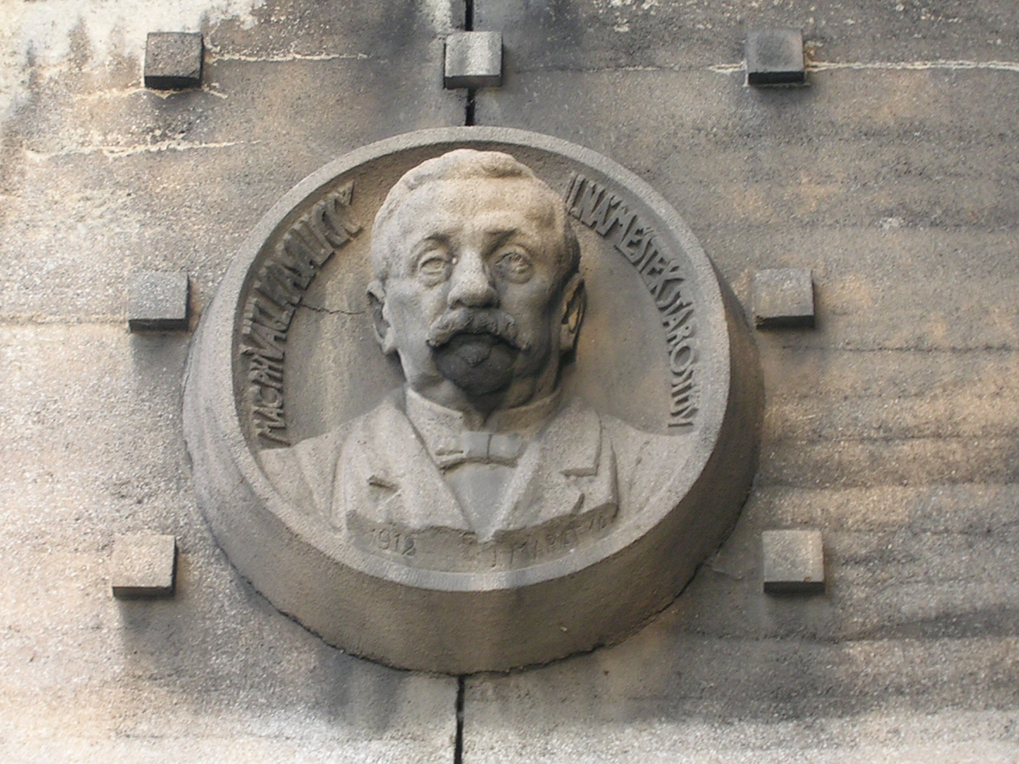 Prague, the Czech Republic. Hlávka's Bridge.